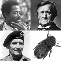 Images from Commons of Eldridge Cleaver, Richard Wagner, Field Marshall Montgomery, and a Death watch beetle.